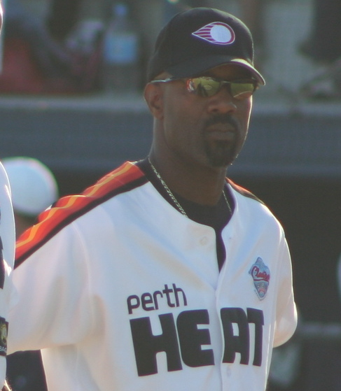 Former New York Yankee pitcher Graeme Lloyd and Philadelphia Phillies player Greg Jelks coaching the Perth Heat in 2009